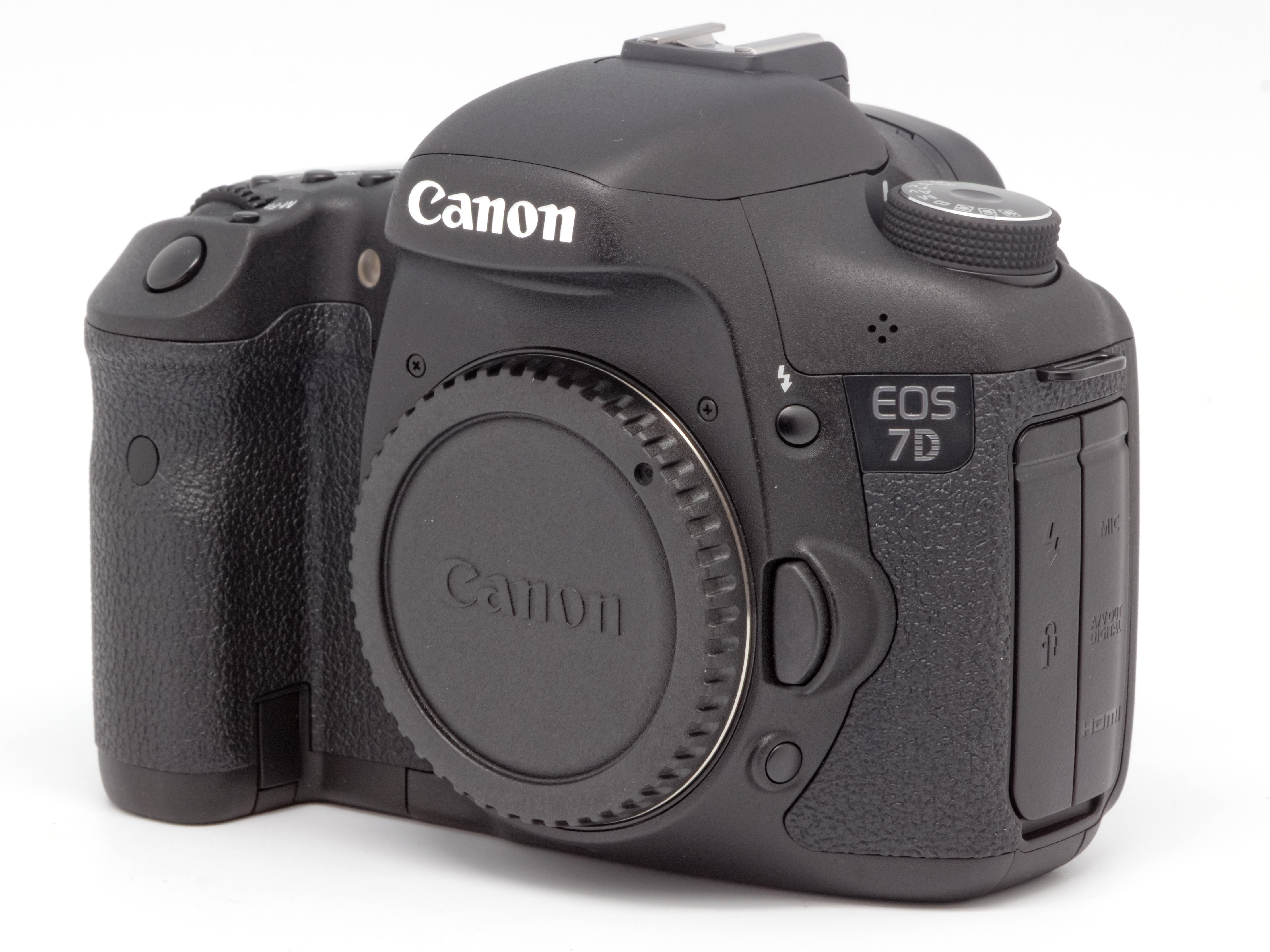 Canon EOS 7D